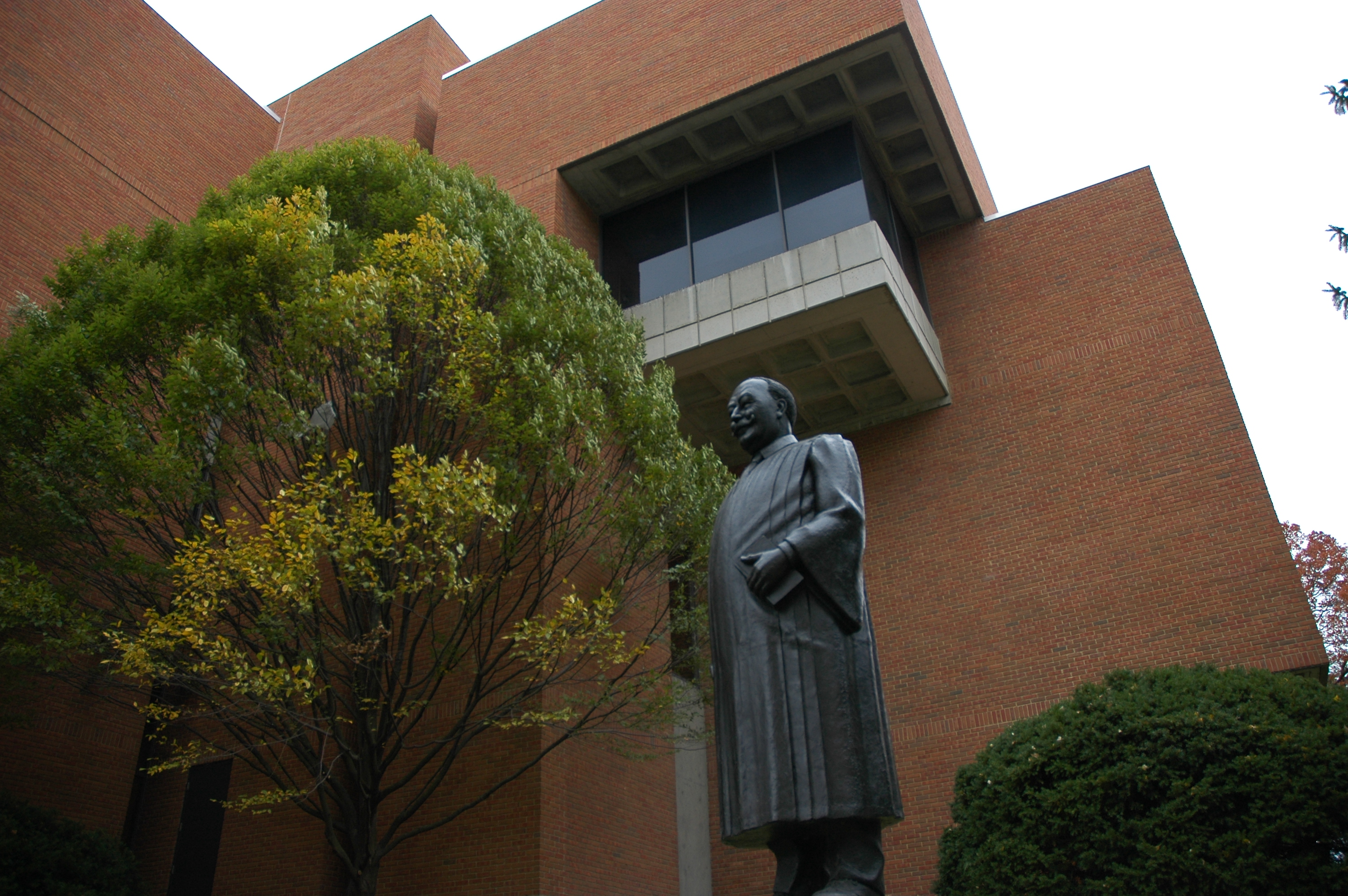 Taft Statue at Rear Entrance